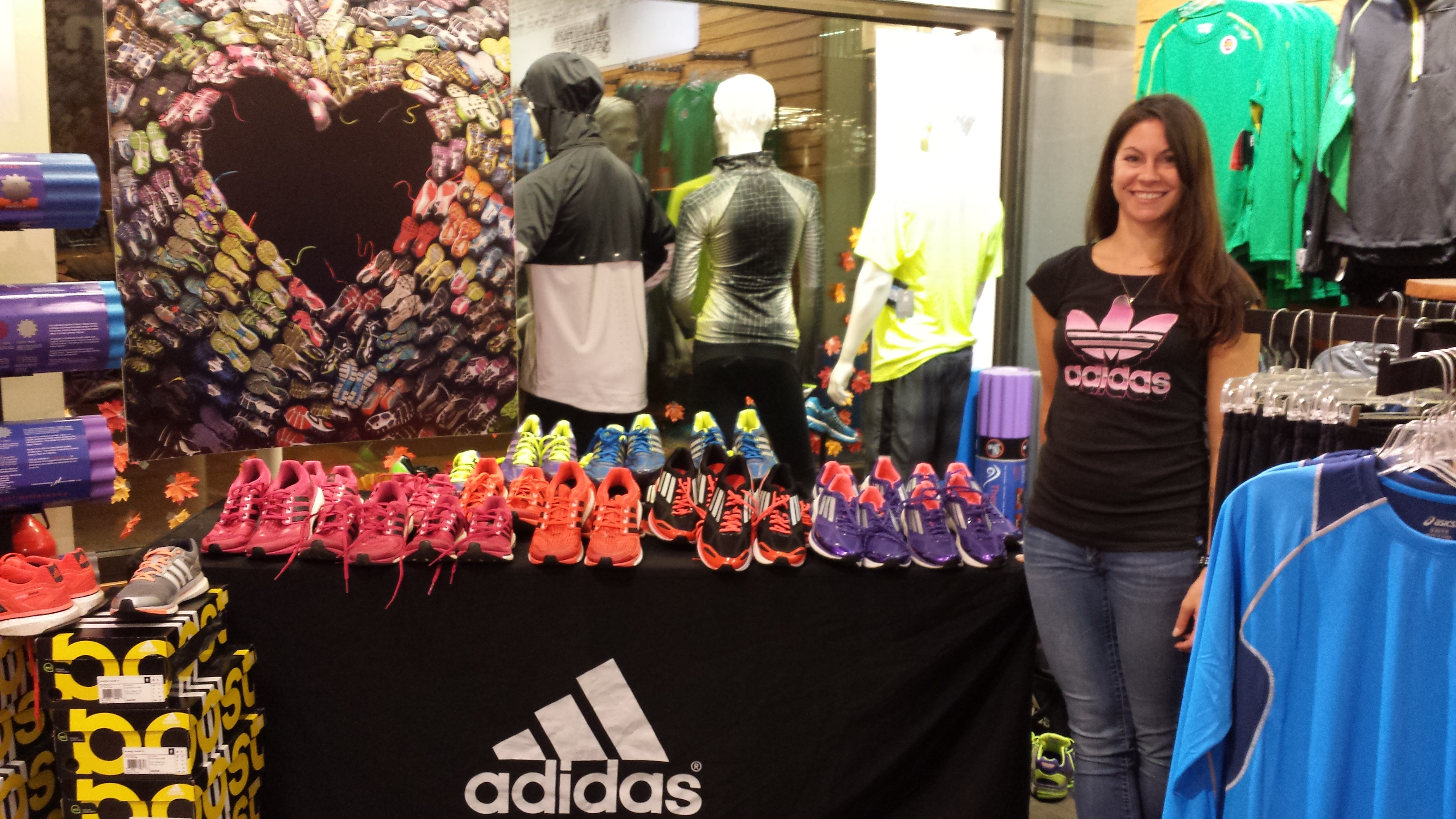 Adidas running shoe product demo for a running club in Boston